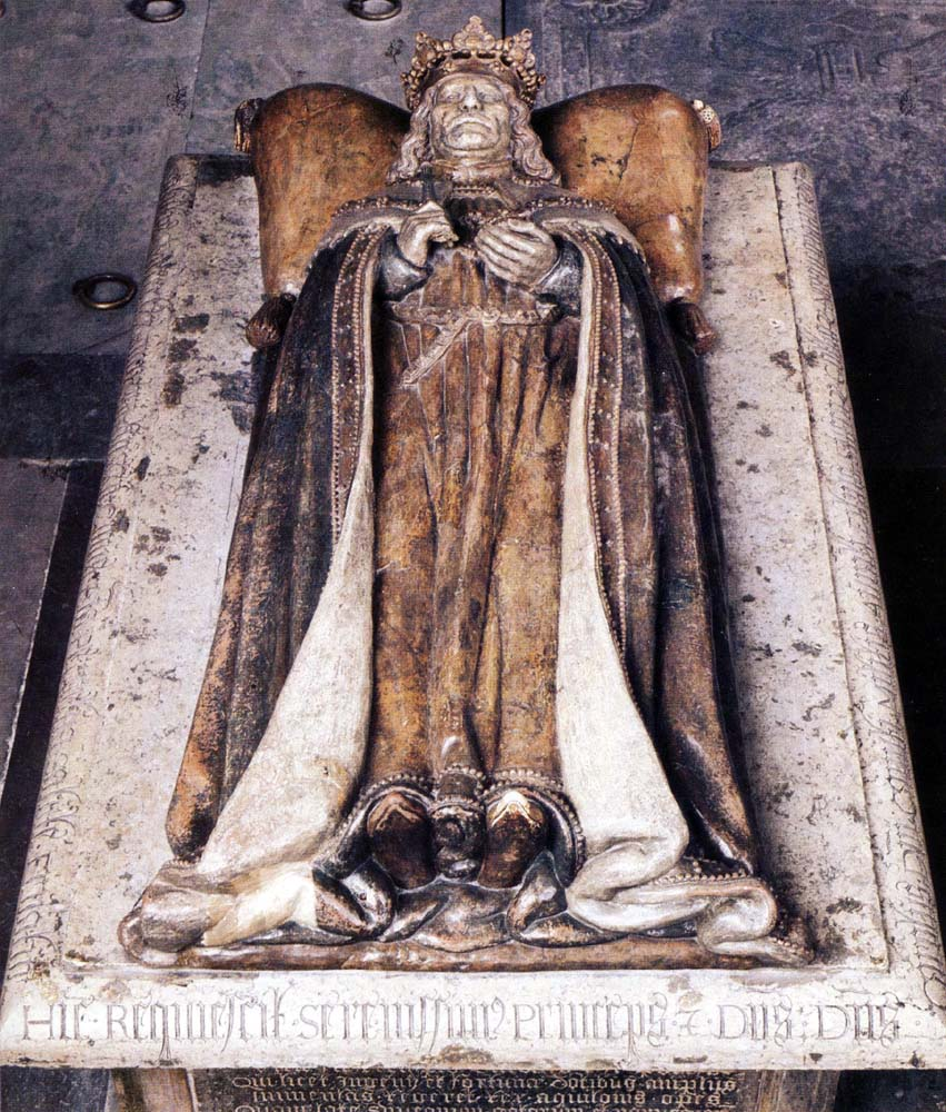 Grave of King Carl II (VIII[sic] Knutsson Bonde) of Sweden as sculpted by Lucas van der Werdt in 1574Place: Riddarholm Church, Stockholm, Sweden